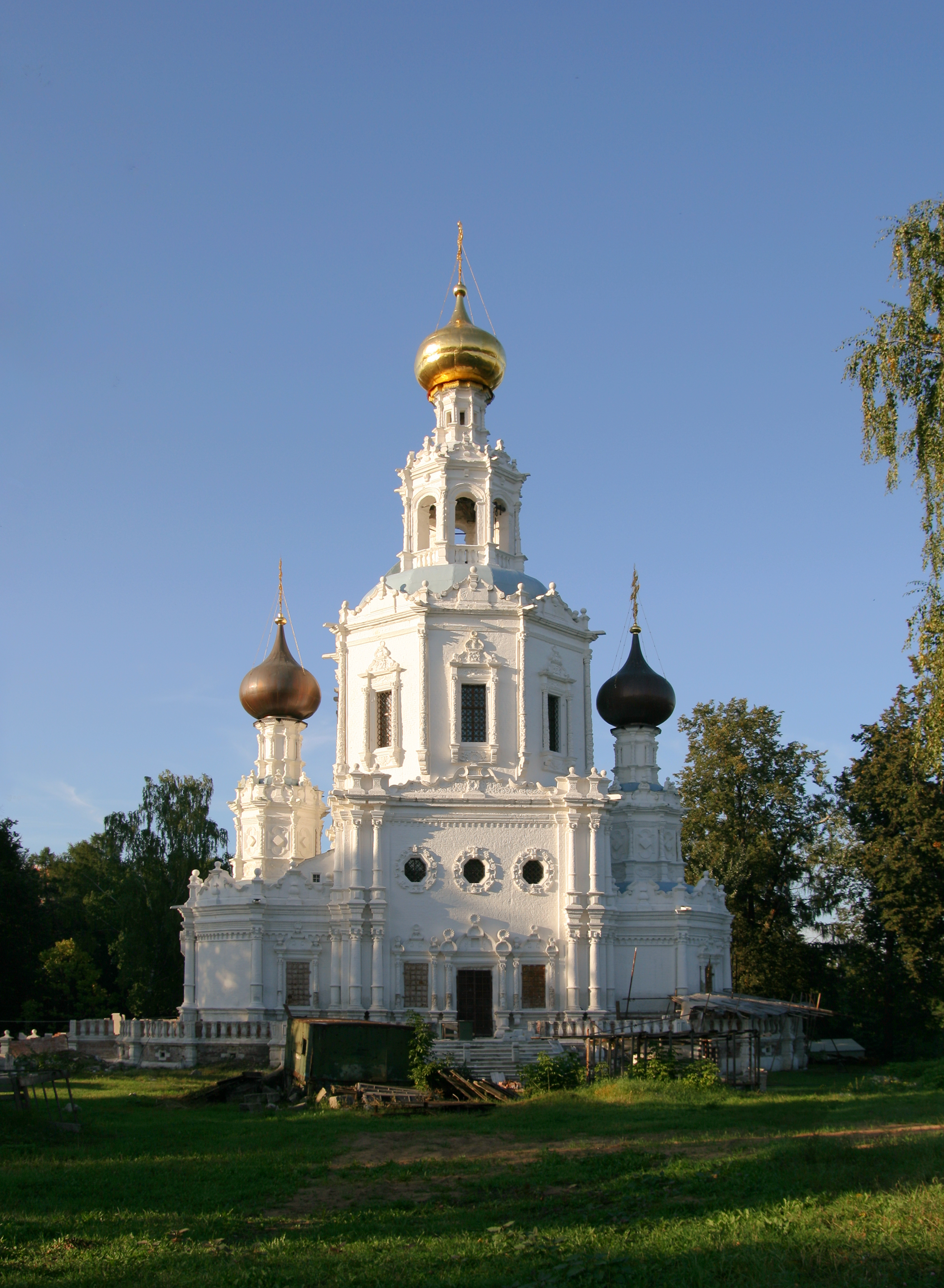 Church of Trinity in Troitse-Lykovo, Moscow, 1695